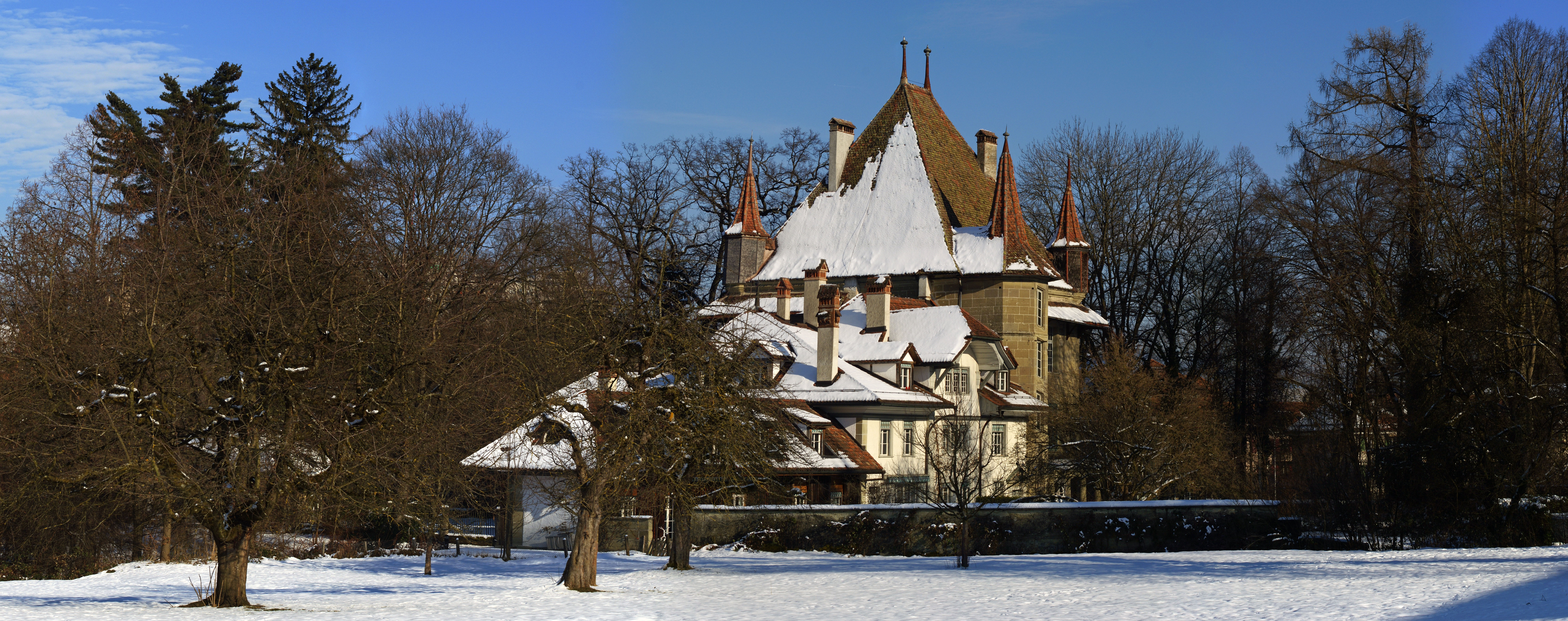 Castle Holligen, Bern, Switzerland. West view.